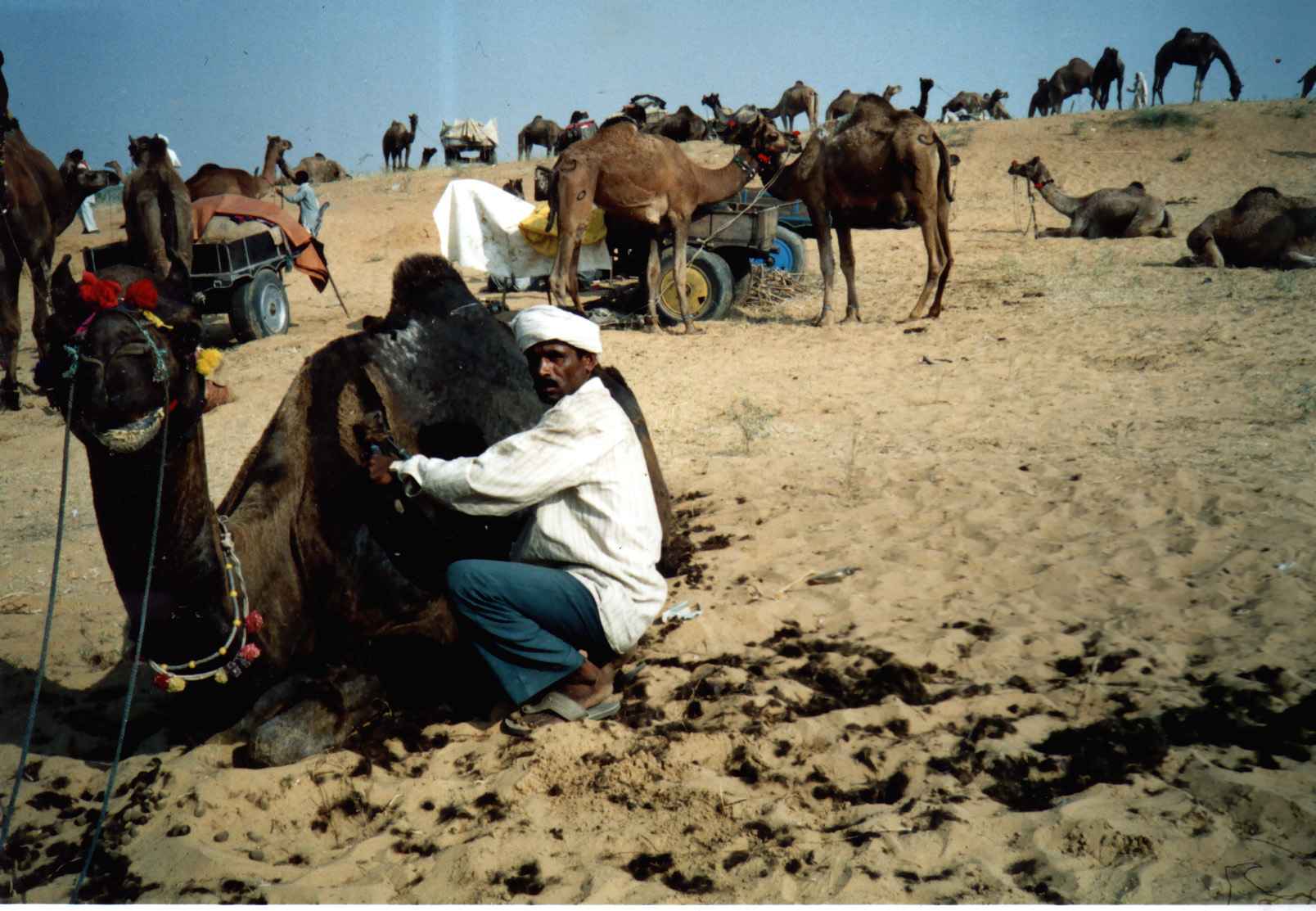 A common custom during the "Pushkar cattle and camel fair" is shearing of the camels hair and fitting or changing the "camel nose ring".